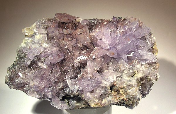 Creedite Locality: West Camp, Santa Eulalia District, Municipio de Aquiles Serdán, Chihuahua, Mexico (Locality at ) This is a magnificent Mexican creedit not just for sheer size (almost unprecedented on the market today) but also for quality and crystal size. These crystals are lustrous, gemmy, and have a deep lavender hue (more pronounced in person if anything). They exceed 2 cm in size in some parts of the specimen. As importantly, the glassy lustre is just astonishing and in the top percentile for the material. A piece such as this would have been uncommon even in the early 1980's when they were coming out through John Whitmire, and you can see it was exceptional from the fact that it was purchased for the collection of Perkin and Ann Sams of Houston (the donor who gave the Houston Museum of Natural History its big leap info mineral fame ). 11 x 7 x 3 cm